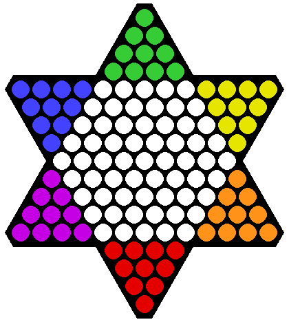 Starting position for Chinese checkers.